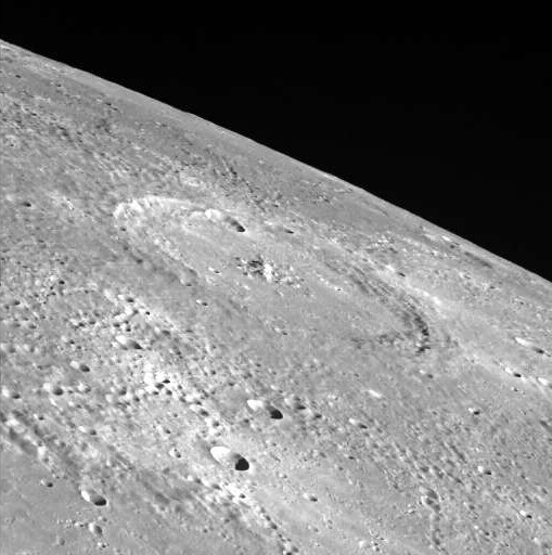 Oblique view of Verdi crater on Mercury. MESSENGER Wide Angle Camera. Approximate north is to left. Emission Angle: 77.0 Incidence Angle: 64.7 Latitude: 64.4 Longitude: 189.9 Phase Angle: 78.6